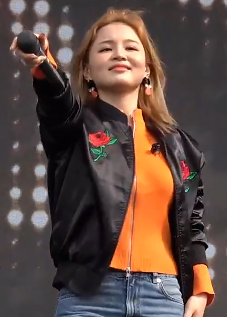 Lee Hi performing "Hold My Hand" sat the Lifeplus Cherry Blossom Picnic Festival on 8 April 2017